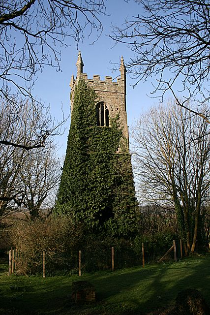 Old Kea Church Tower. Rapidly being smothered with ivy. The tower is all that remains of the 13th century church. At the request of Lord Falmouth of Tregothnan the tower was left standing as it was feature of the view from the estate. The three bells that hung here before the church was demolished were transferred to the new church at Higher Kea.597654